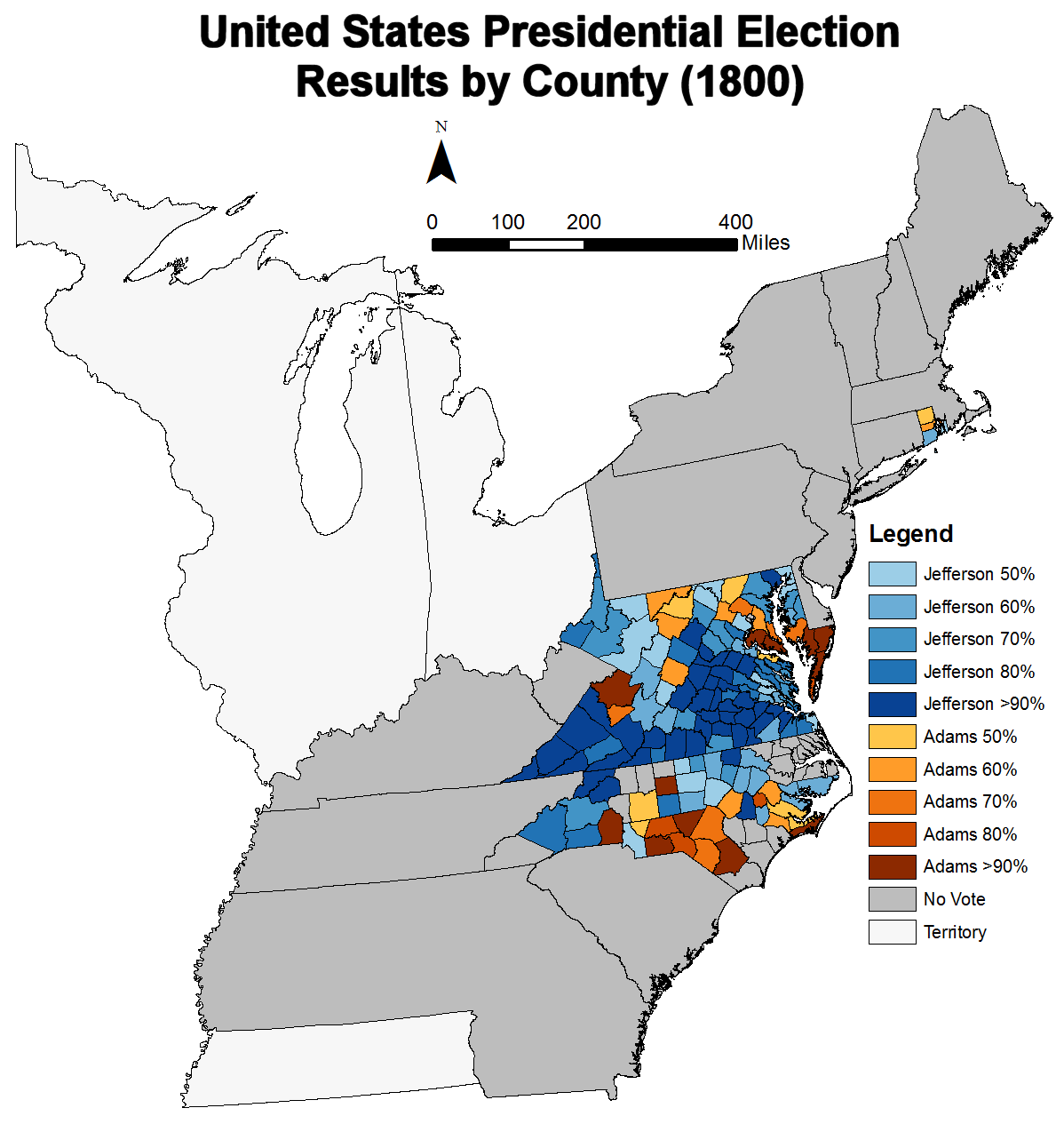 Presidential election results by county (1800). Colors based on Colorbrewer 2.0. Compact version.